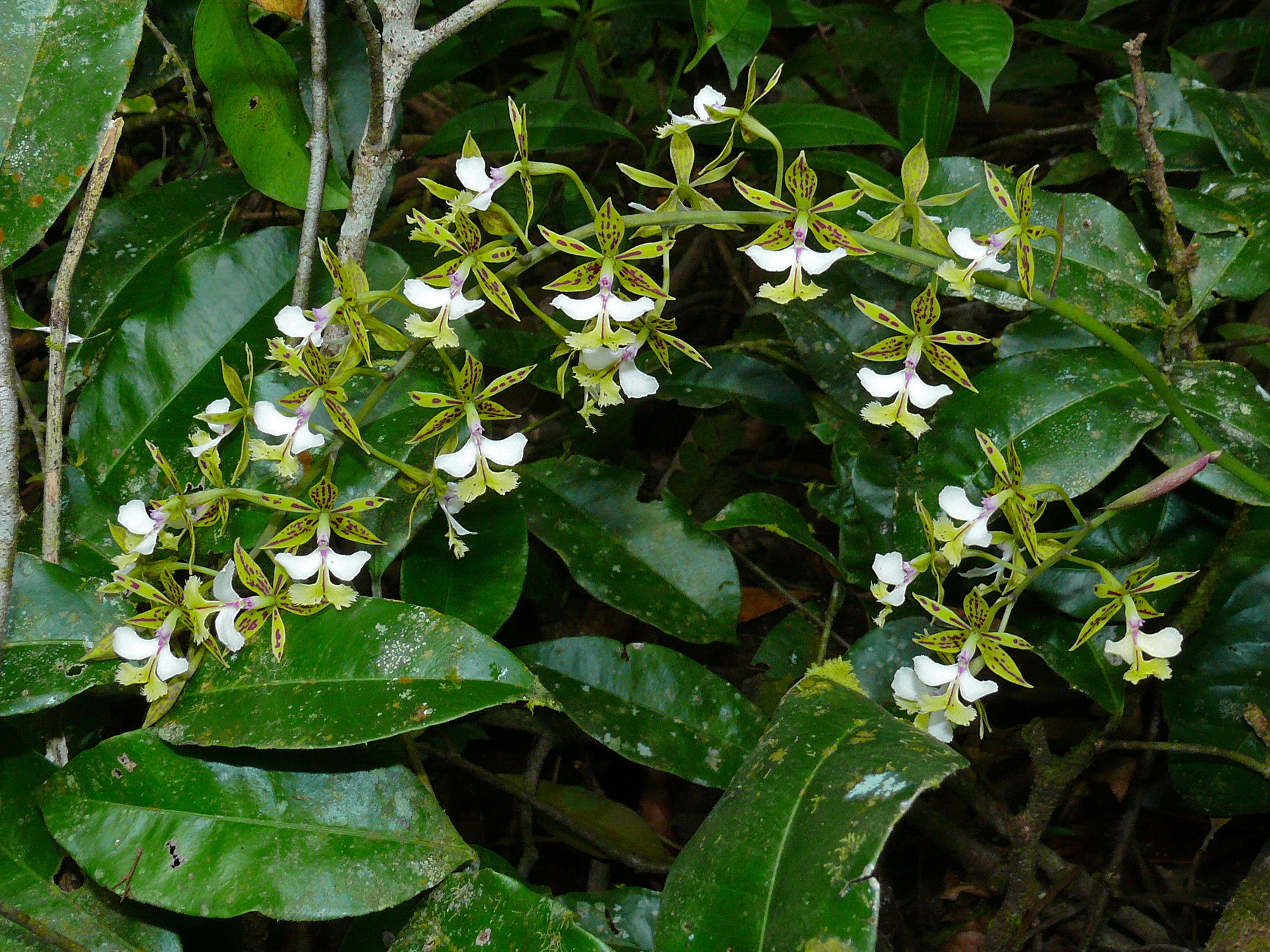 Cockscomb Wildlife Sanctuary, BELIZE